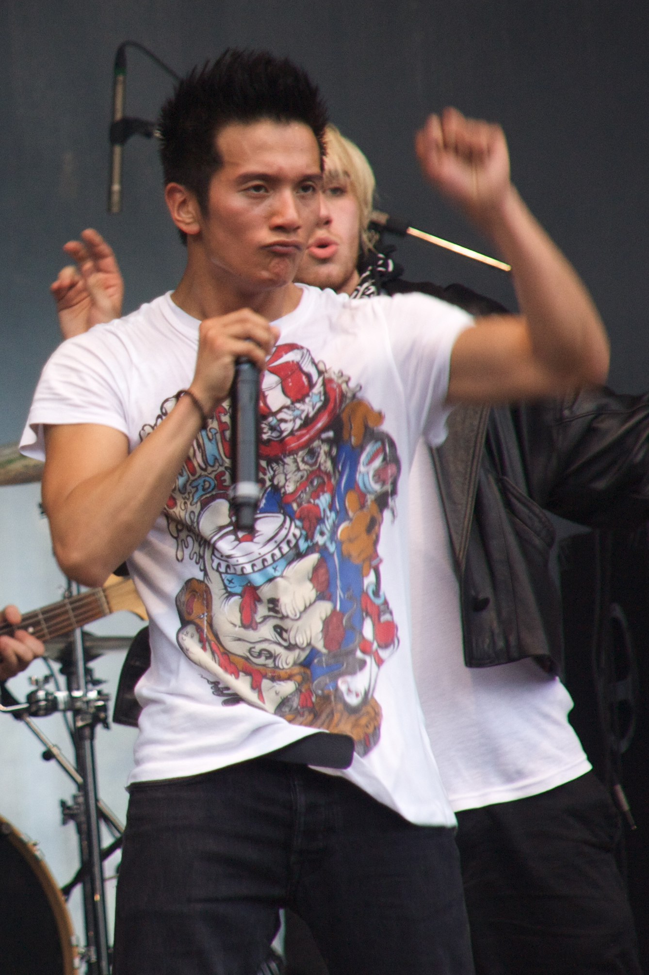 Vincent Bueno at "Maifest im Prater 2010", Vienna